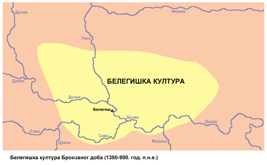 Bronze Age Belegiš Culture or Belegiš Group (1350-900 BC).